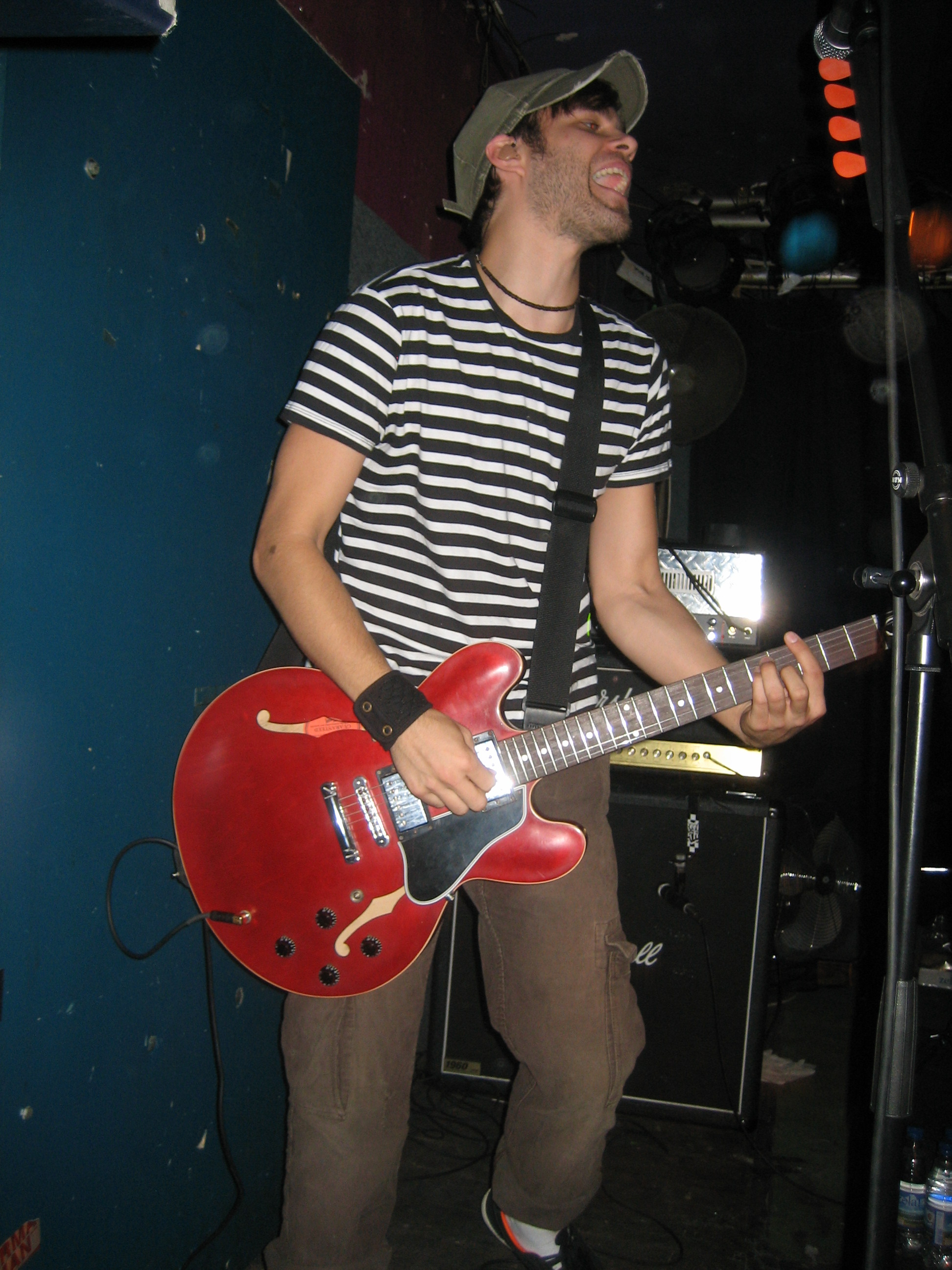 A picture of the head of Streetlight Manifesto made in the Magnet, Berlin